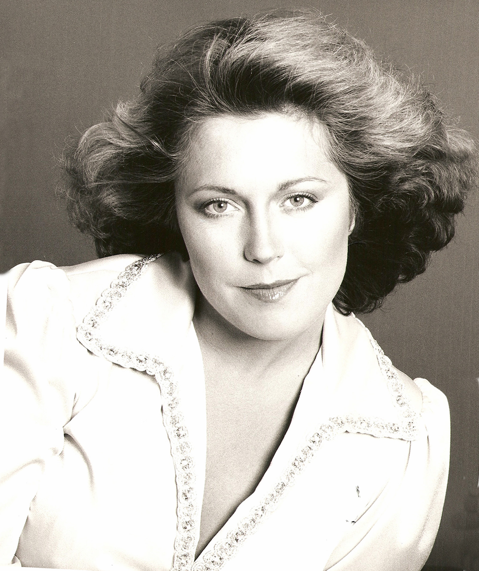 Nikki Hornsby, an American pop and country singer-songwriter and guitarist.